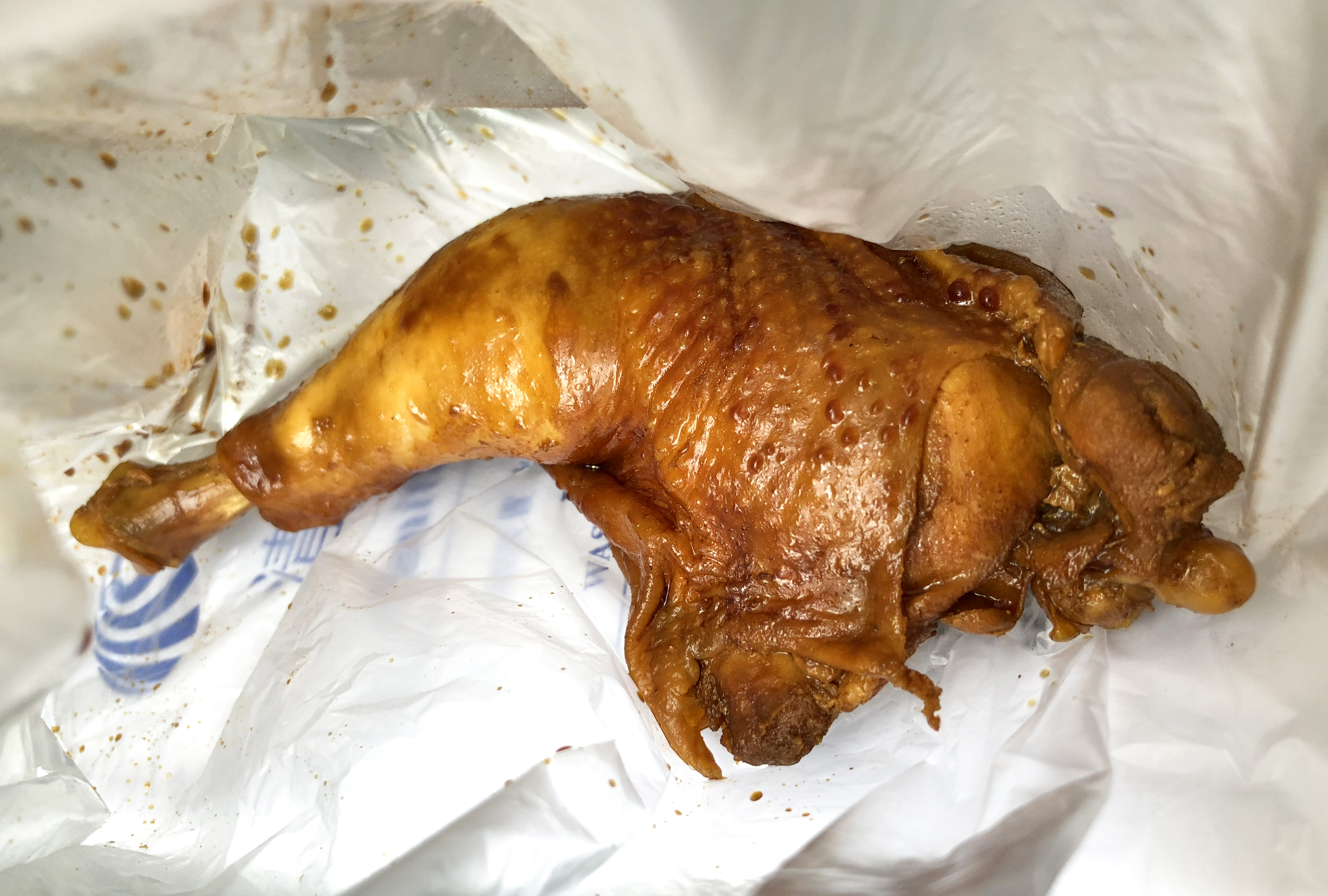 The Guangzhou-Kowloon Through Train is reputed for chicken legs sold on trains, currently for CNY20 (cash only). On this train, chicken legs were not offered until the train entered Zengcheng, Guangzhou.